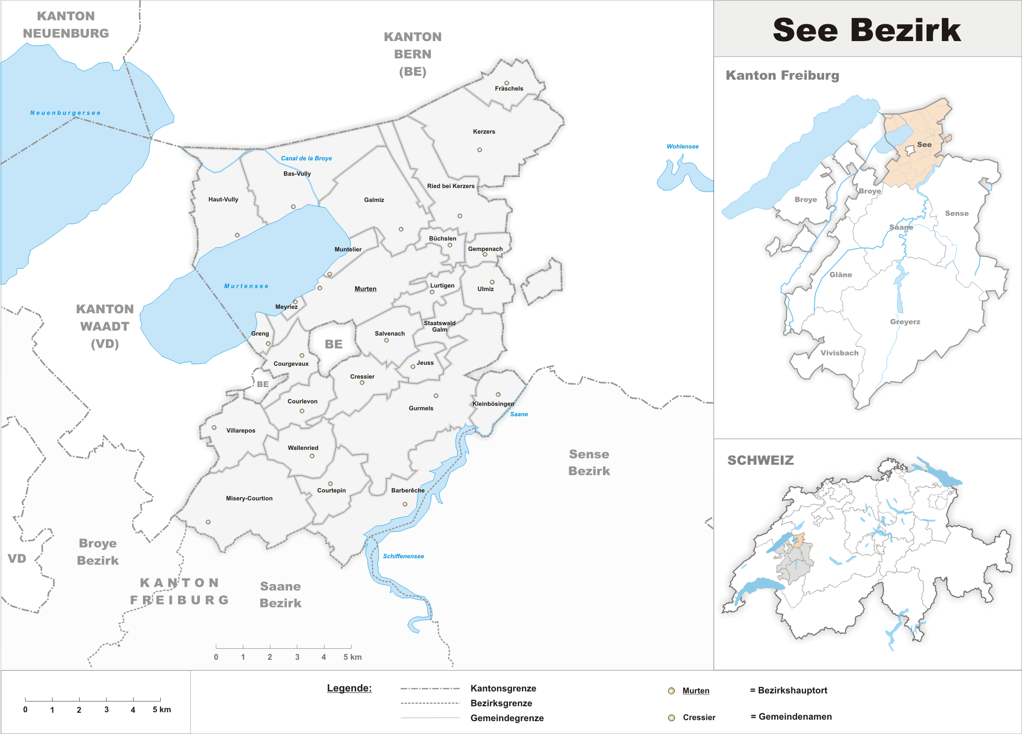 Municipalities in the district of See